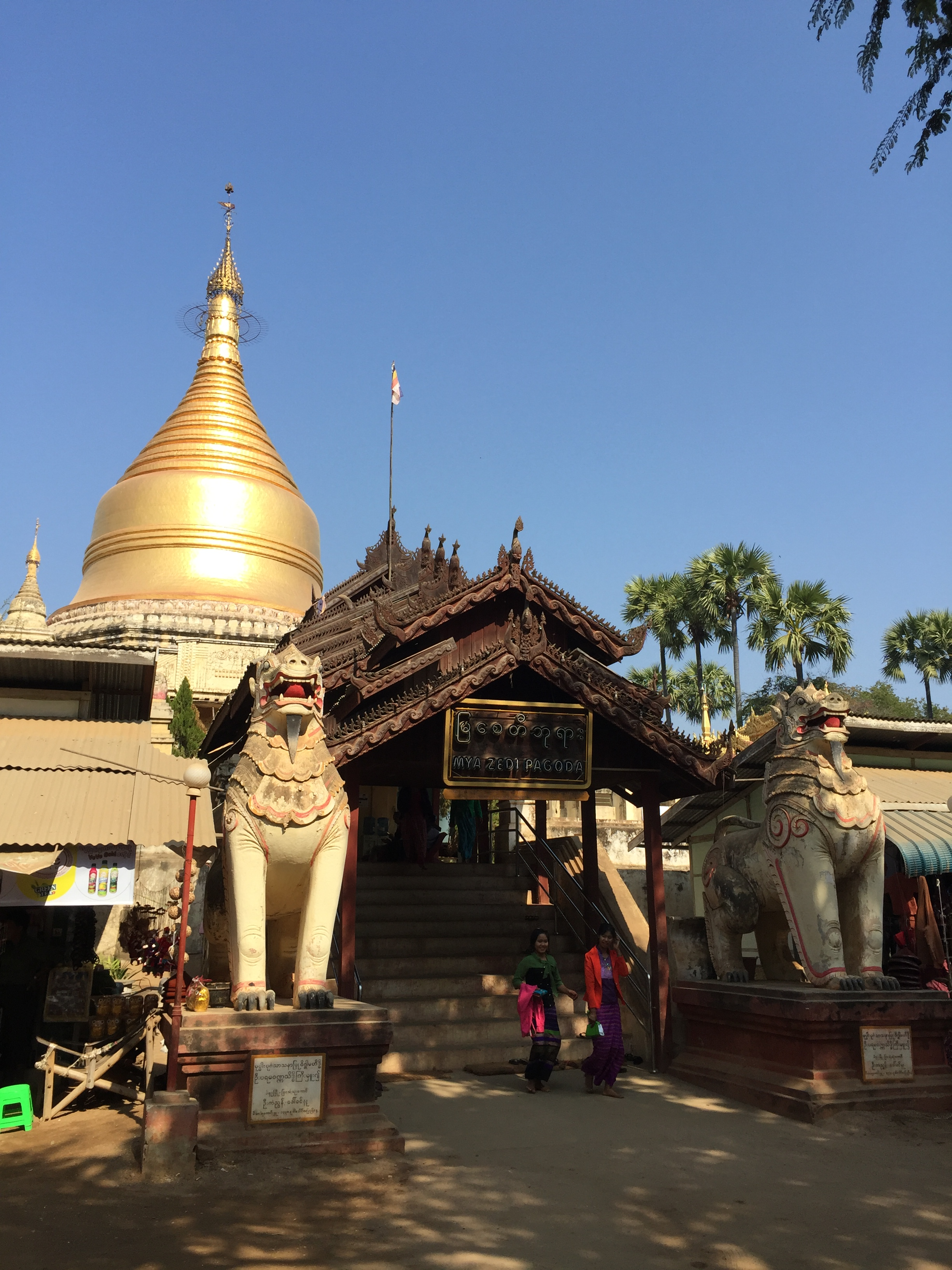 Myazedi Pagoda, Bagan မြန်မာဘာသာ: မြစေတီ ဘုရား